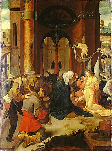 Jan Wellns de Cock. Nativity. Strossmayer's old masters gallery